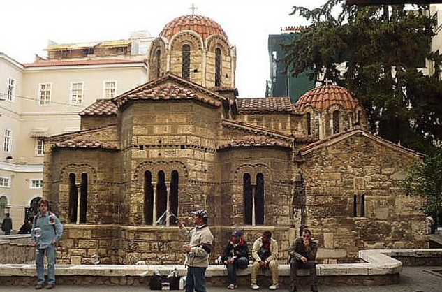 apnikarea Church-Athens-Greece